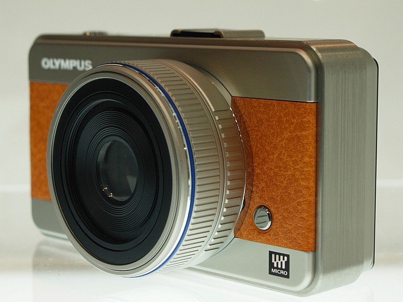 Olympus Micro Four Thirds Concept Model at the E-30 Fair in Tokyo.